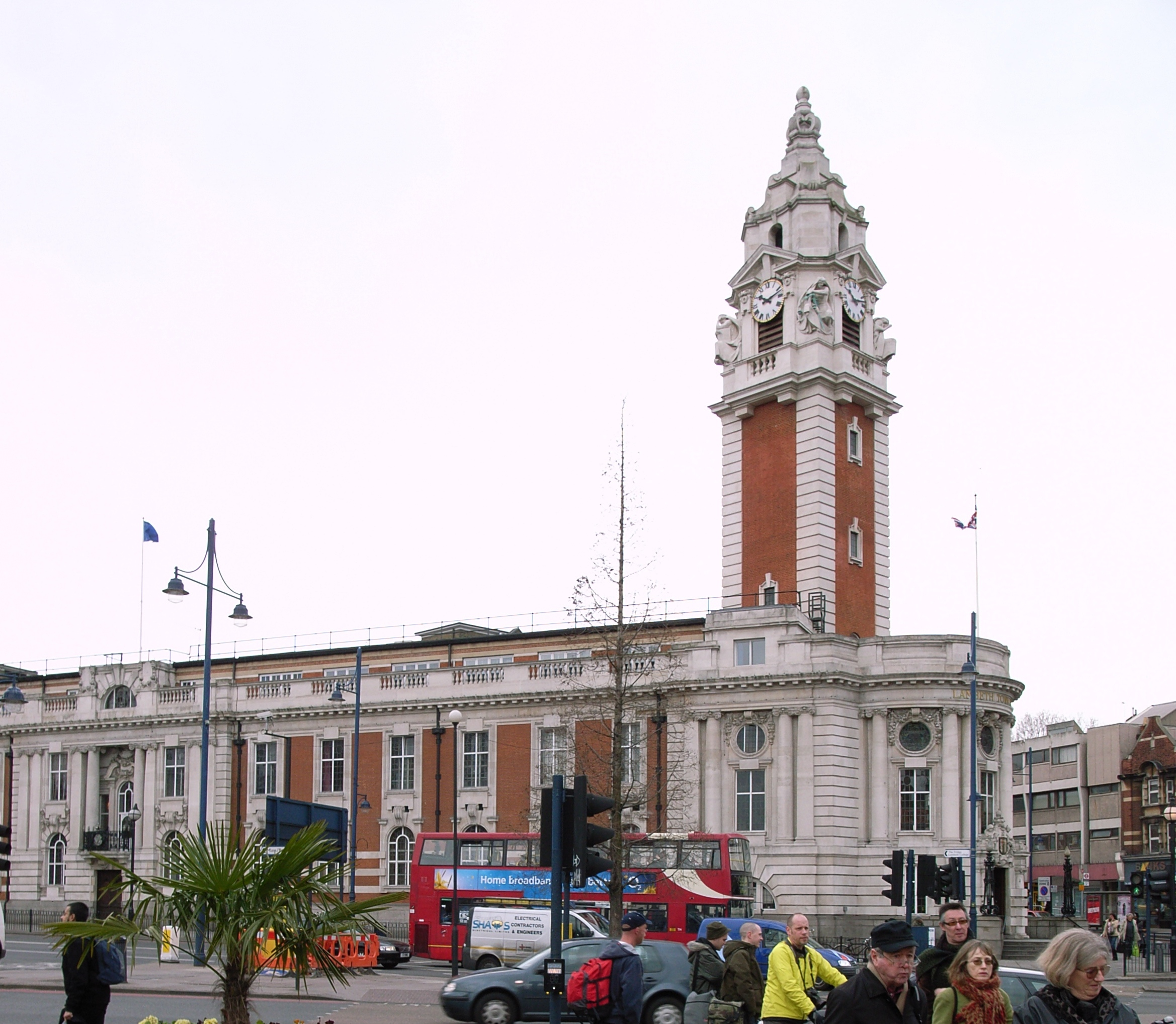 Lambeth Town Hall (also known as Brixton Town Hall) (1906-8) by Septimus Warwick and H. Austen Hall. Photo taken on a walk around Brixton and Herne Hill with the 20th Century Society on 8th March 2008.